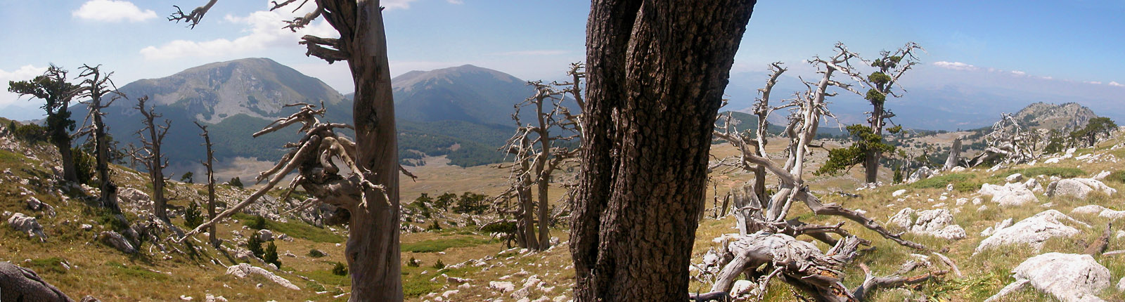 Mount Pollino (2248 mt, left) and Serra del Prete (2181 mt, center ) from the top of Serra delle Ciavole, between Pino Loricato trees